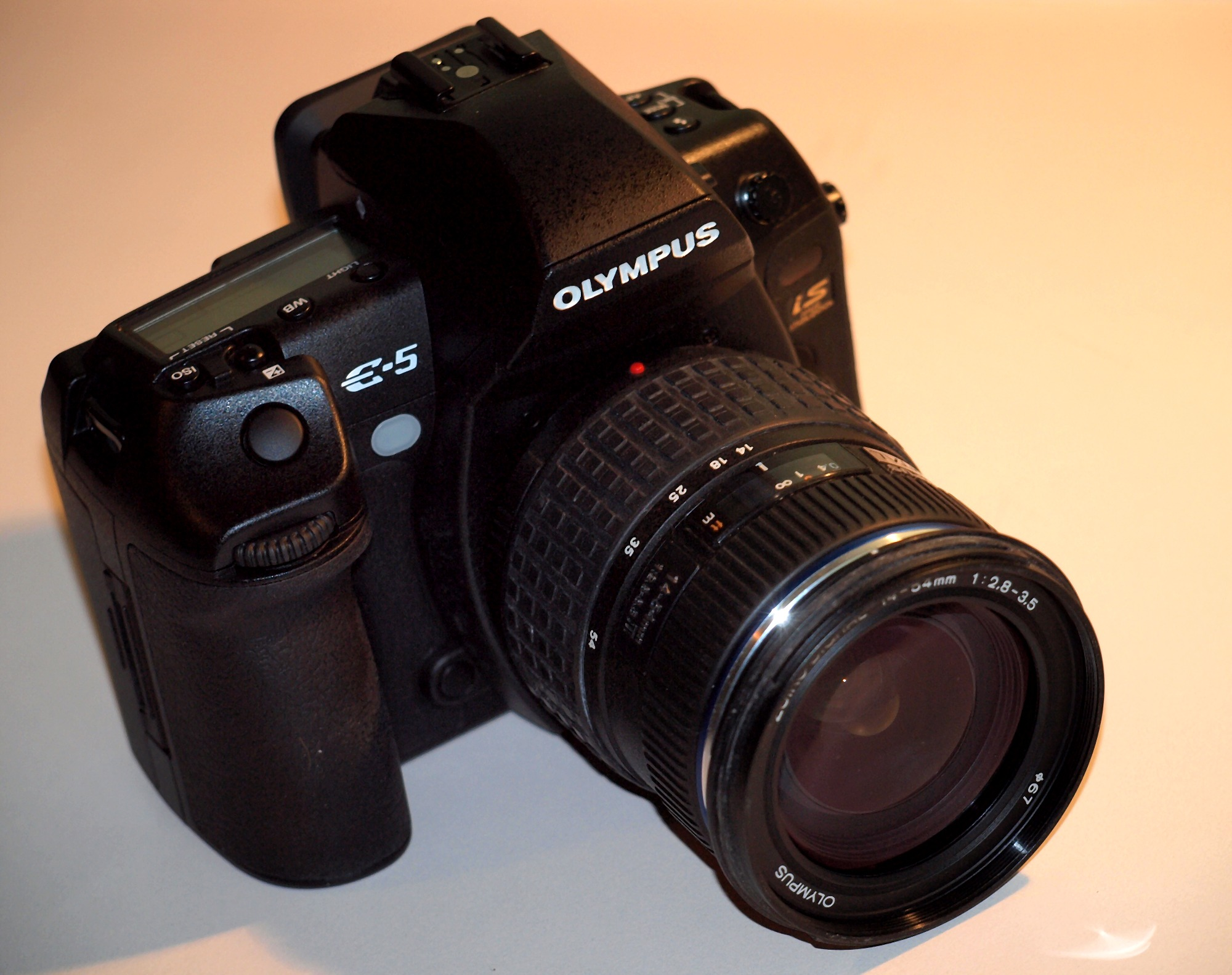 Professional DSLR Olympus E-5